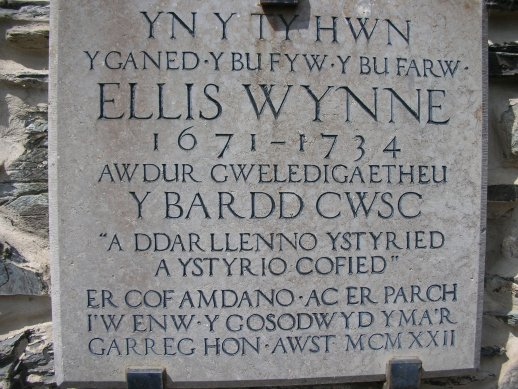 Plaque at Lasynys Fawr, near Harlech, Wales. Birth place of Ellis Wynne. Photographed by me, 27 July 2006.